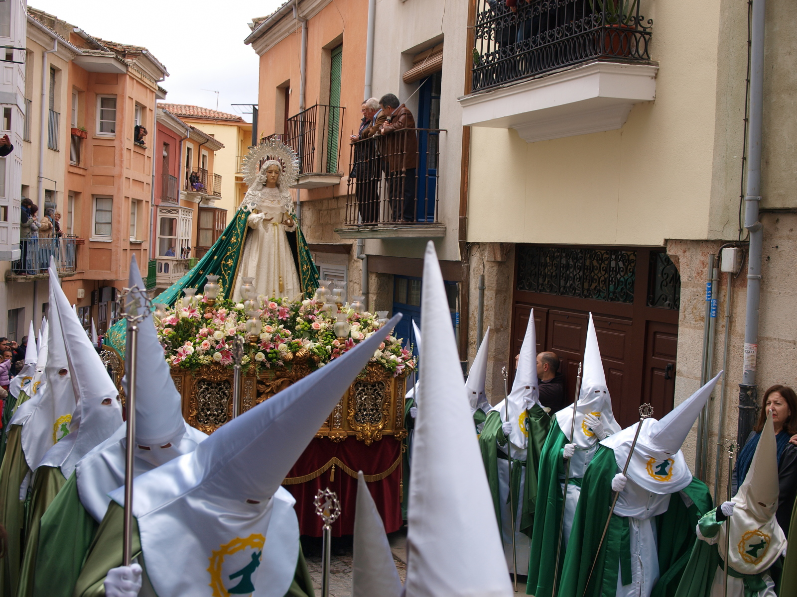 Procesion of the religious brotherhood Virgen de la Esperanza, Zamora (Spain), Holy Week 2012